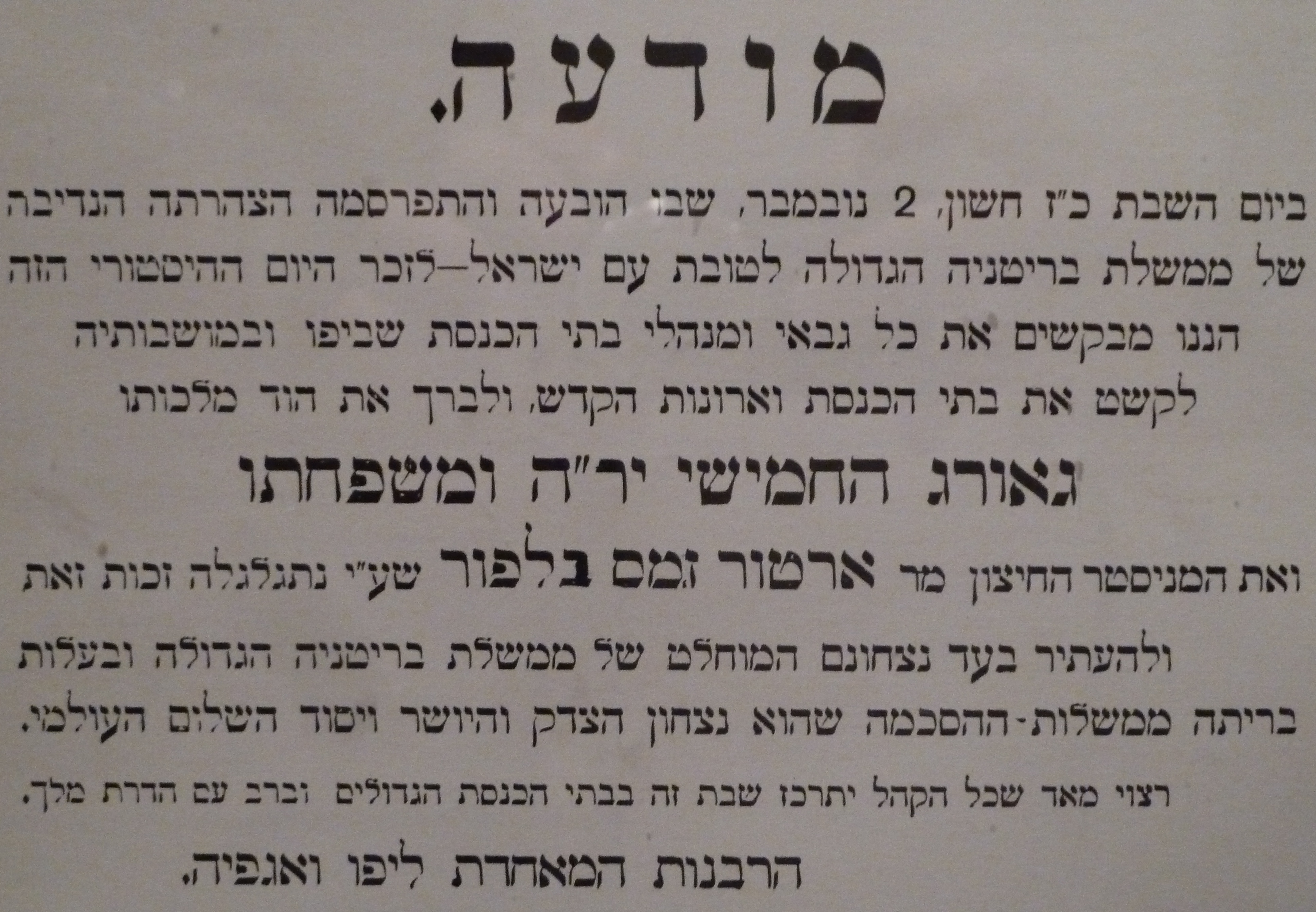 Tel Aviv historical ads from the 1920s and the 1930s. An exhibition at the Shalom Meir Tower